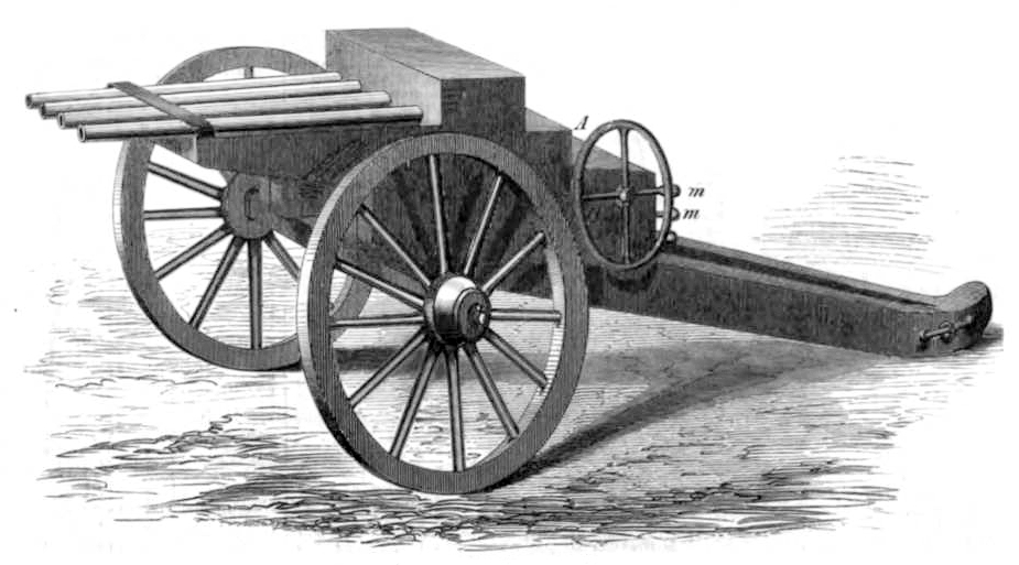 Feldl Gun